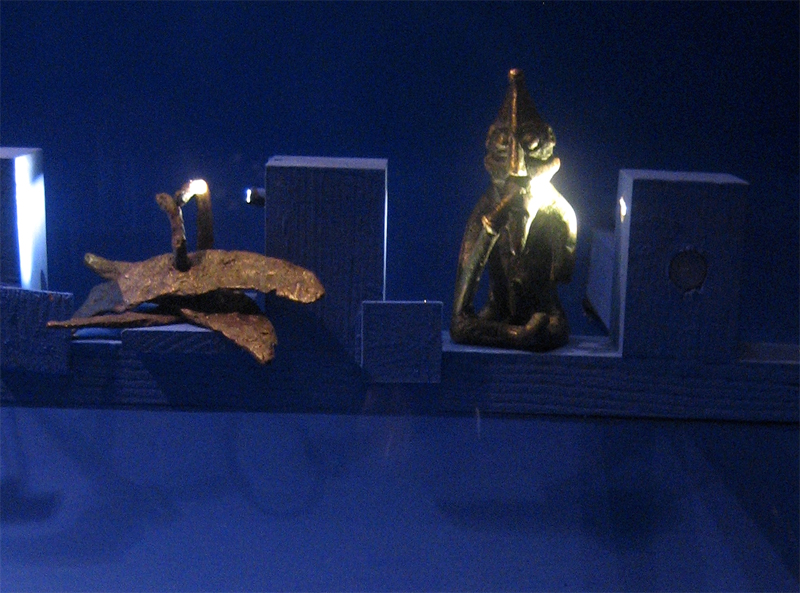 A statue of the Norse god Freyr, dated to the 11th century. Found in 1904 on the grounds of the farm Rällinge, Sweden.